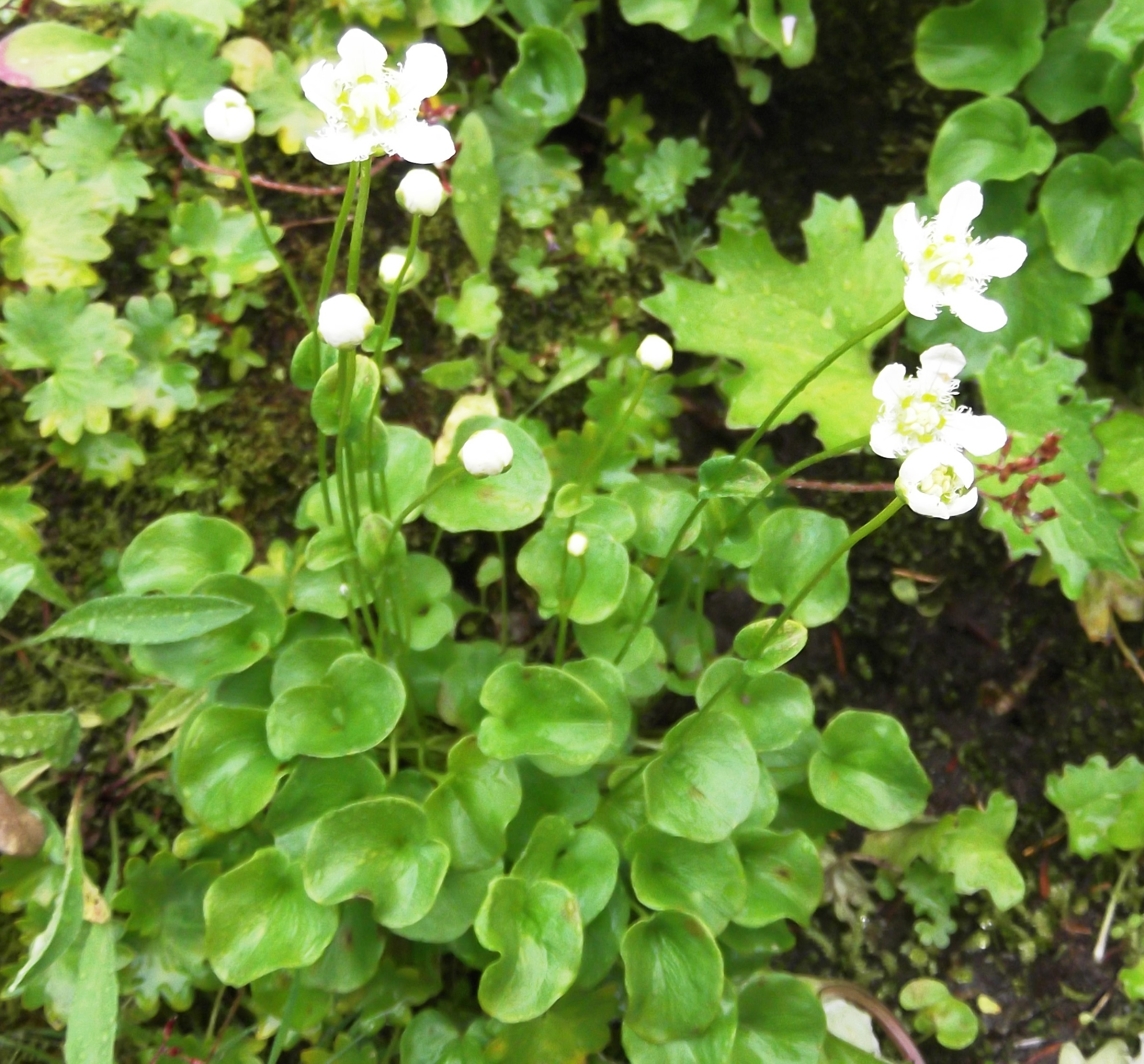 Naches Peak Loop Trail about 1700 meters (5600 feet elevation) William O. Douglas Wilderness 12q3 594